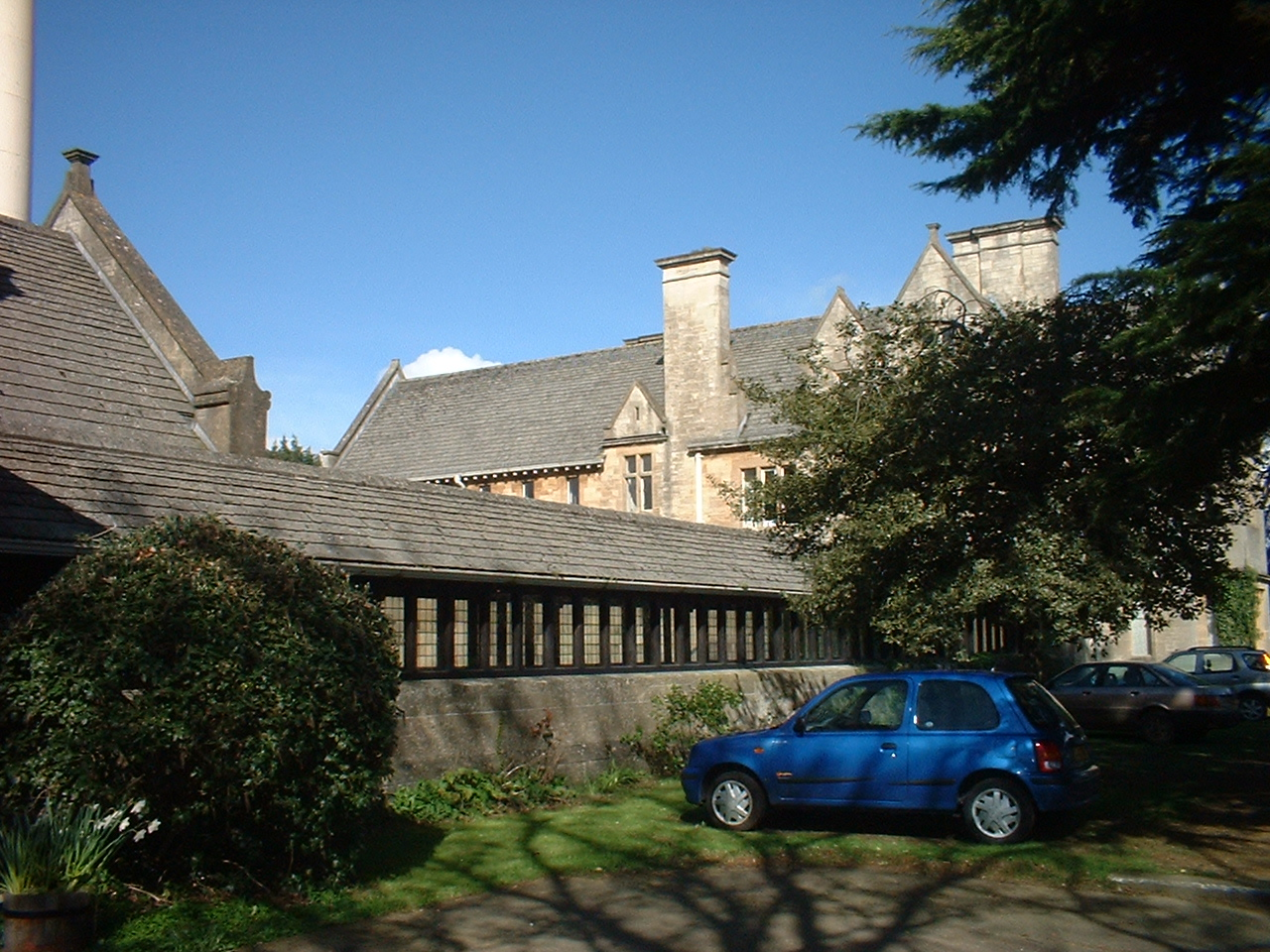 A picture of Marling School, Stroud taken from the front. I took it and hewreby release it into the pulic domain.